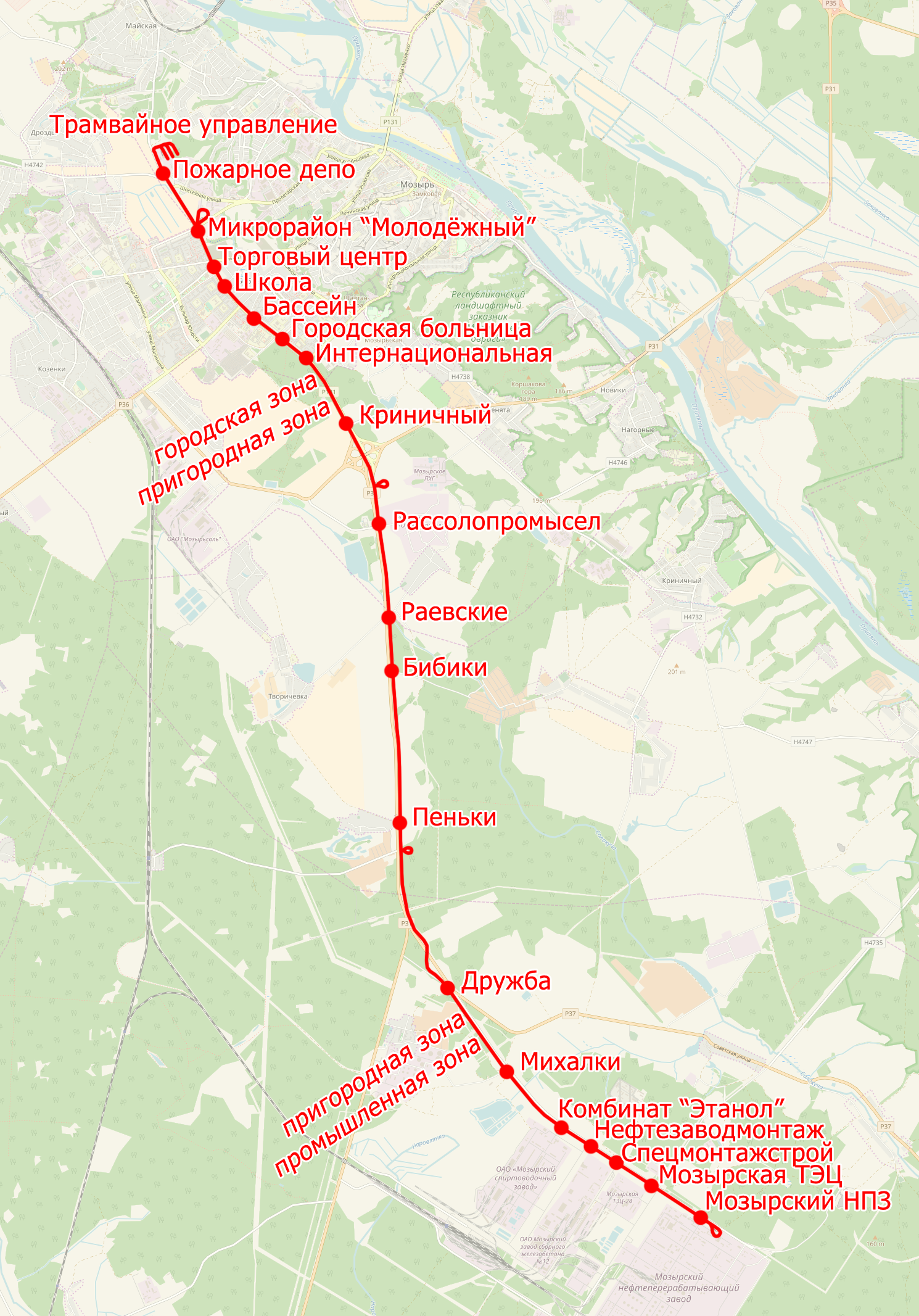 Tram map of Mazyr, Belarus (in Russian)